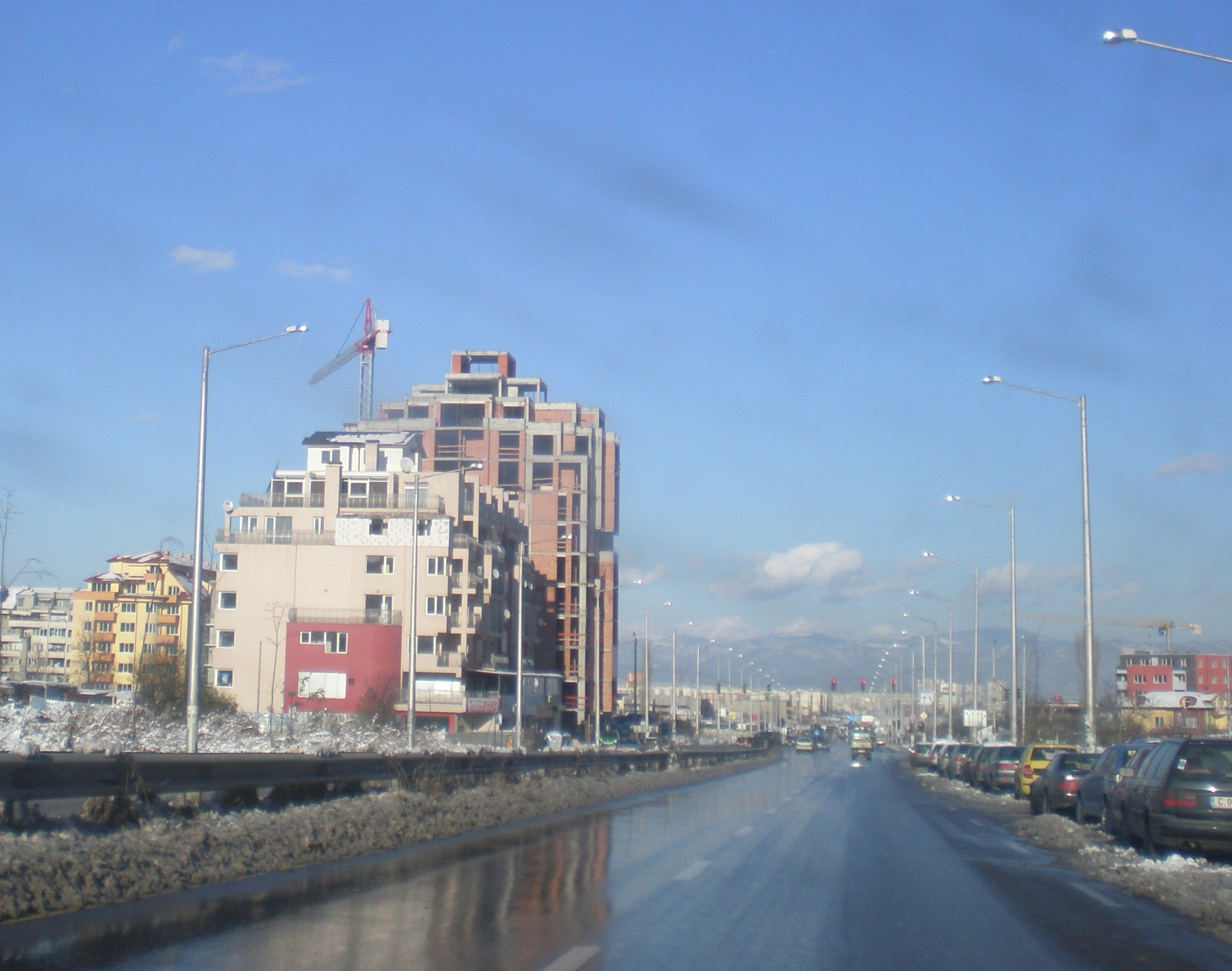 Pancho Vladigerov boulevard - Sofia, Bulgaria